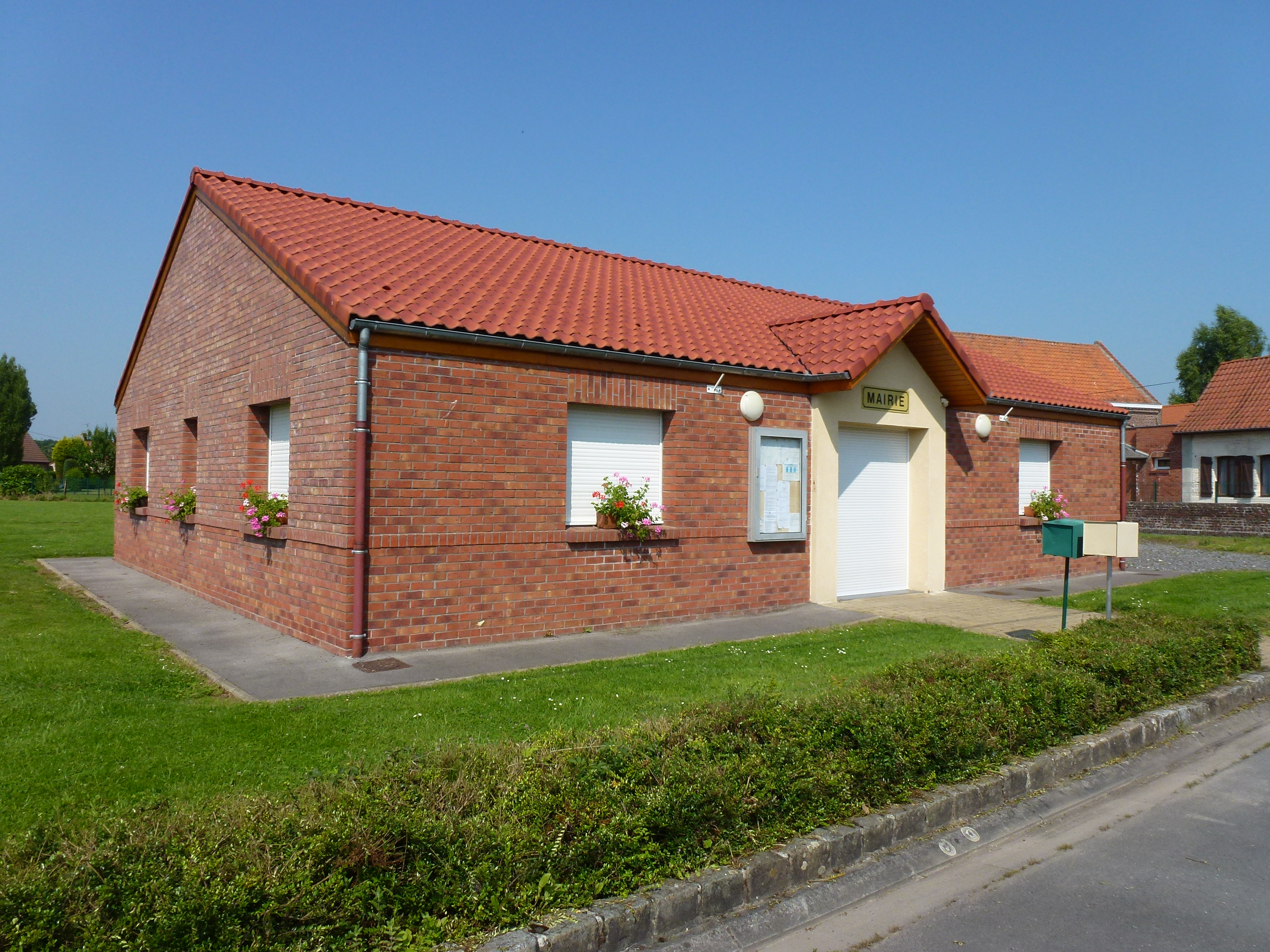 Tilloy-lez-Marchiennes (Nord, Fr) mairie